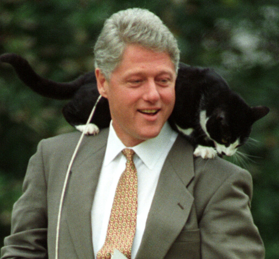 Title: Photograph of President William Jefferson Clinton with Socks the Cat Perched on Clinton's Shoulder: 03/07/1995 Creator: President (1993-2001 : Clinton). White House Photograph Office. (01/20/1993 - 01/20/2001) Types of Archival Materials: Photographs and other Graphic Materials Contacts: William J. Clinton Library (NLWJC), 1200 President Clinton Avenue, Little Rock, AR 72201. Phone: 501-244-2877; Fax: 501-244-2881; Production Dates: 03/07/1995 From: Series: Photographs Relating to the Clinton Administration, compiled 01/20/1993 - 01/20/2001 Collection WJC-WHPO: Photographs of the White House Photograph Office (Clinton Administration), 01/20/1993 - 01/20/2001 Persistent URL: Access Restriction(s): Unrestricted Use Restriction(s): Unrestricted